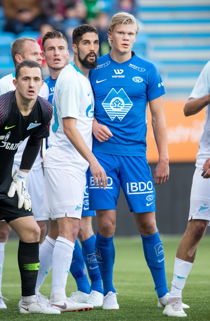 30.08.2018. Норвегия, Мольде, «Мольде». Лига Европы УЕФА 2018/19, раунд плей-офф, «Мольде» — «Зенит».